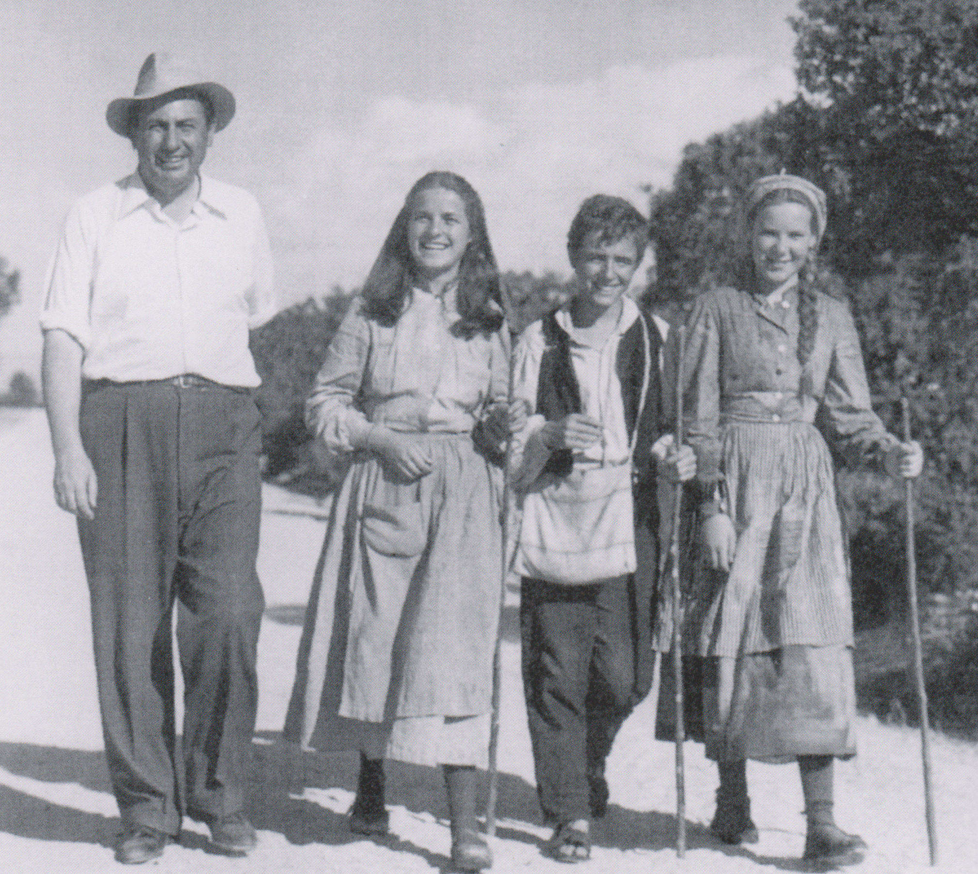 Rafael Gil with actors María Dulce, Eugenio Domingo and Inés Orsini on the set of 'La señora de Fátima' (1951)